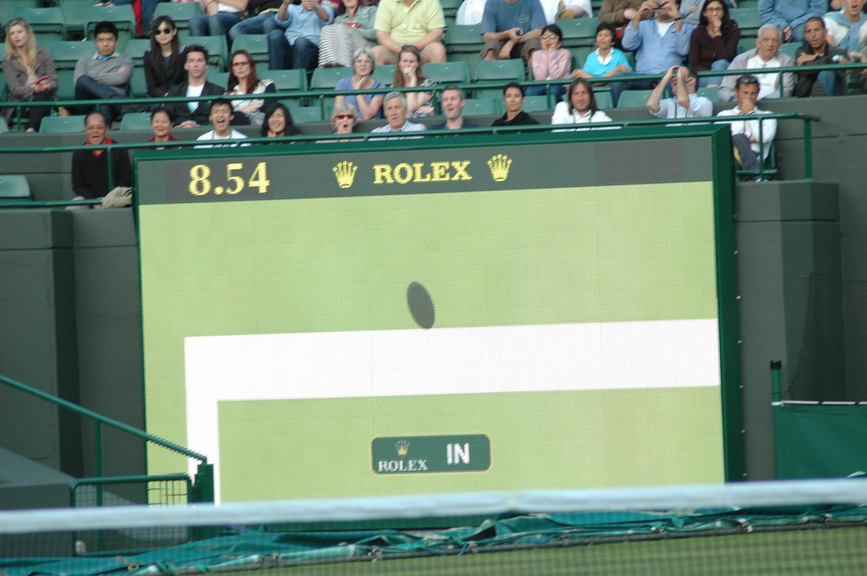 The decision of In or Out with the help of Technology at Wimbledon